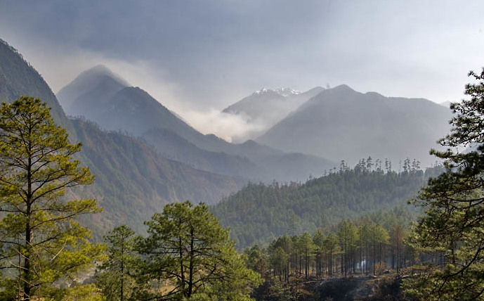 It's a scenary between Hawai and Kibithoo